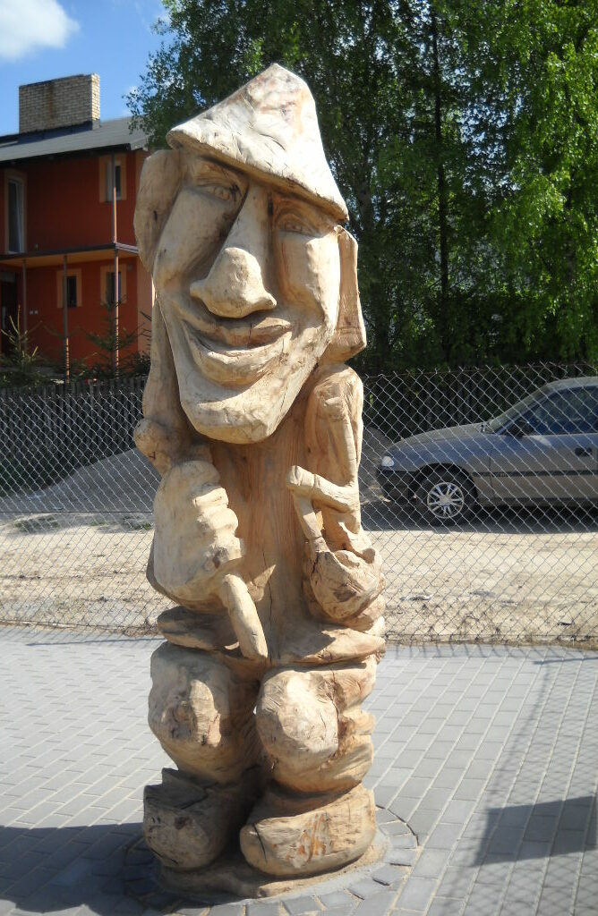 Statue of Kashubian mytical personage Pikón located on the „Poczuj Kaszubskiego Ducha” tourist route (Lewino, Poland).